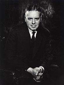 The Reverend CK Barrett